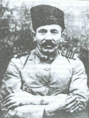 An Ottoman soldier in the Caucasus Campaign of 1918